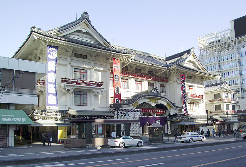 Kabukiza Kabuki Theater Ginza Tokyo Japan I took this photograph of the Kabukiza, a kabuki theater in the Ginza section of Tokyo, Japan.